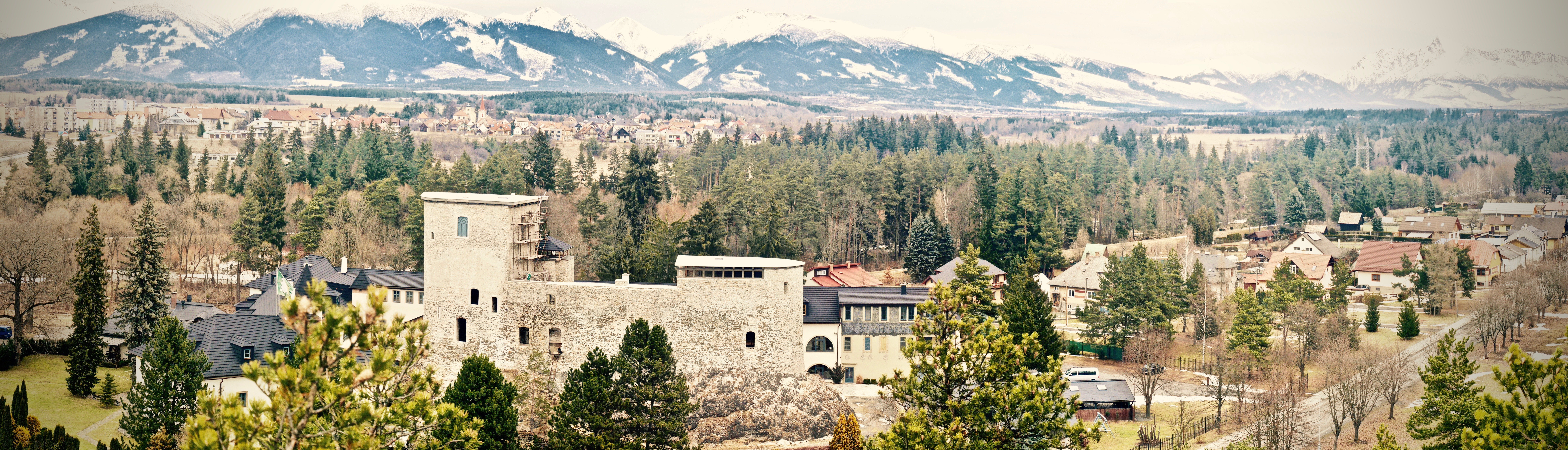 A panoramic taken with a Panasonic GM1 in February 2017. ©Cathriona Hanley 2017